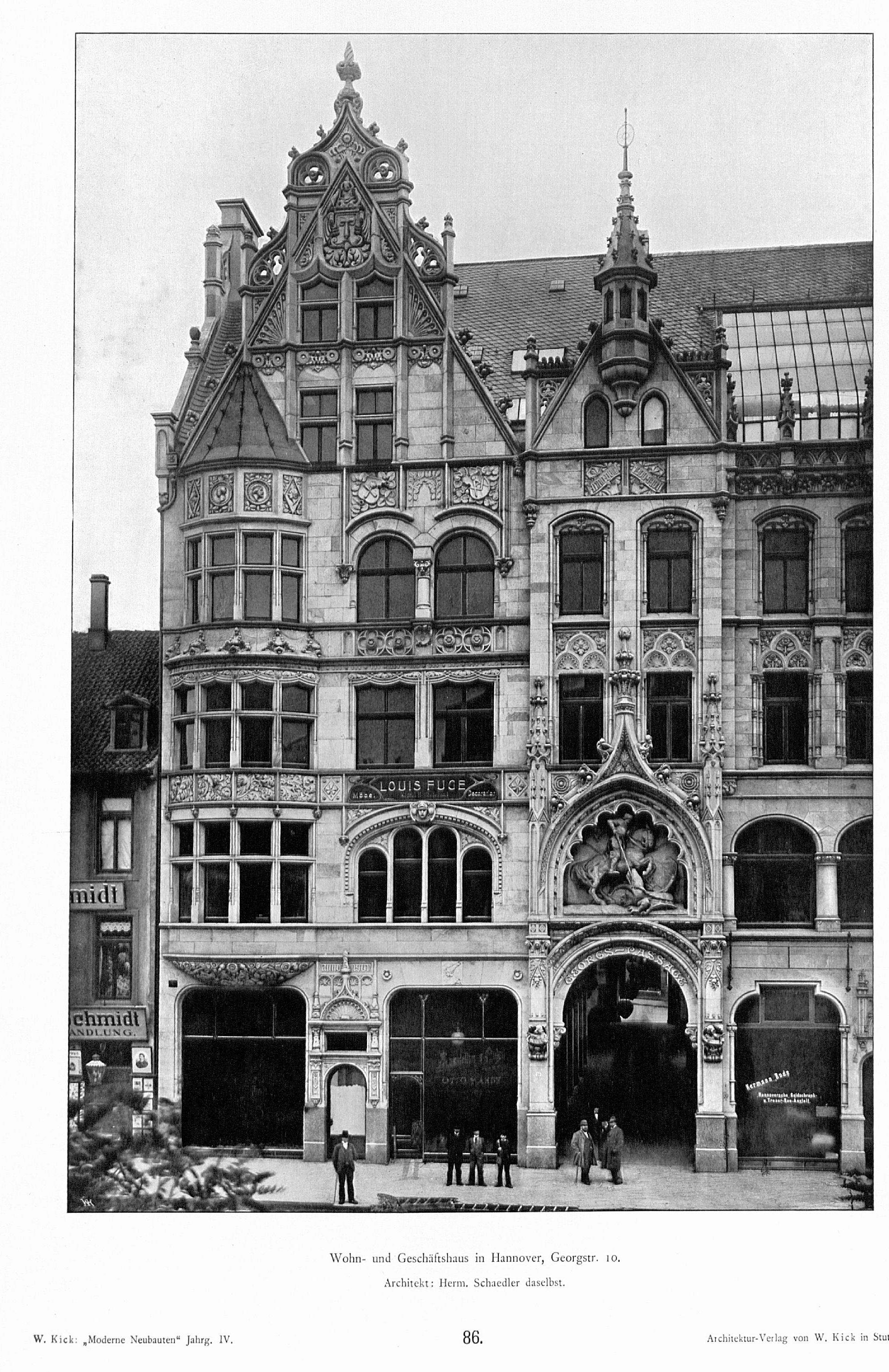 Haus_in_Hannover,_Georgstr._10,_Architekt_Hermann_Schaedler_Hannover.jpg